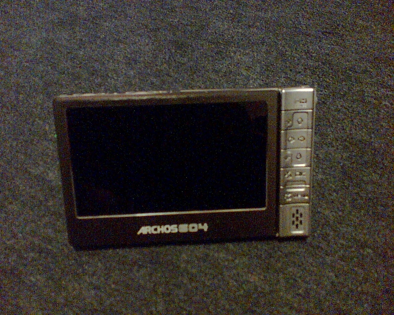 Image of an Archos 604 Digital Media Player, to be placed on the "Archos" page on Wikipedia.